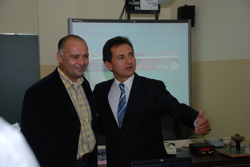 Serbian 3 times Minister of Finance, 2 times Minister of Science and Technology, mr Božidar Đelić, in a Physics Lab 1, in Mathematical Gymnasium Belgrade. Mr. Đelić returned to Serbia, from France where he grew up, in 2000. He entered the Institut d'études politiques de Paris and later École des Hautes Études Commerciales in Paris where he graduated as a top student. In 1987 he received a double master's degree in economics at the Ecole des Hautes Etudes en Sciences Sociales. He eventually moved to the United States, where he completed an Master of Business Administration at the Harvard Business School, as well as a Master of Public Administration, specializing in macroeconomics and international relations, at Harvard's Kennedy School of Government. His mentors were Alain Gomez, the chairman of Thomson SA, who taught him how to be a manager, and the economist Jeffrey Sachs, who took him along from Harvard to Warsaw and Moscow. Ministry is one of a large scale investors in Mathematical Gymnasium Belgrade. Mathematical Gymnasium also have contracts with Serbian Airways (JAT, air traffic company), Telekom Srbija (Telecom Serbia, the largest telecom operator in former Yugoslavia and in modern Serbia), Serbian Academy of Sciences and Arts, domestic and international scientific Institutes, etc.